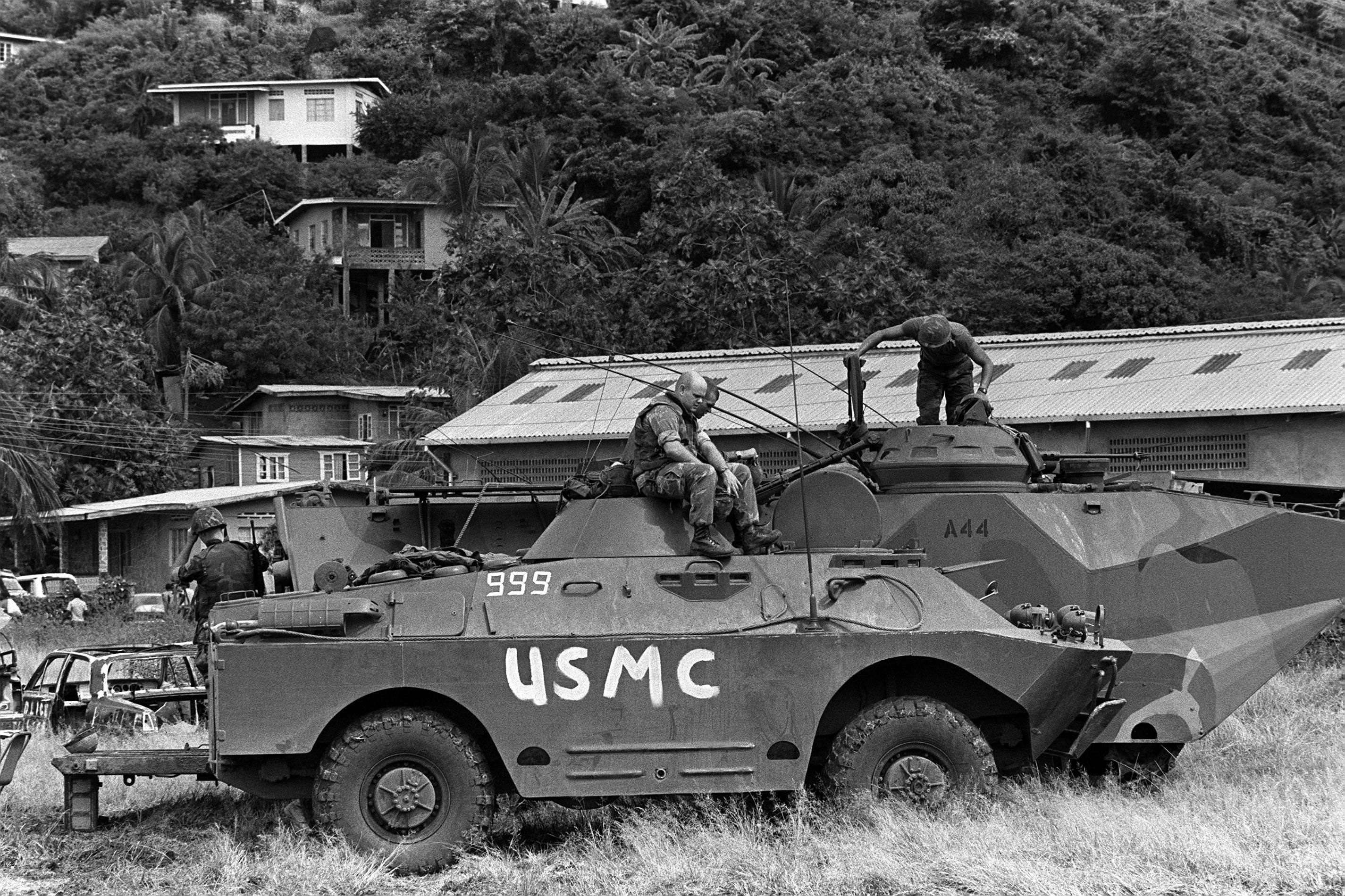 US Marines sit aboard a captured Soviet-made BRDM-2 amphibious armored scout car, foreground, and an AAV-7A1 tracked landing vehicle during Operation Urgent Fury.